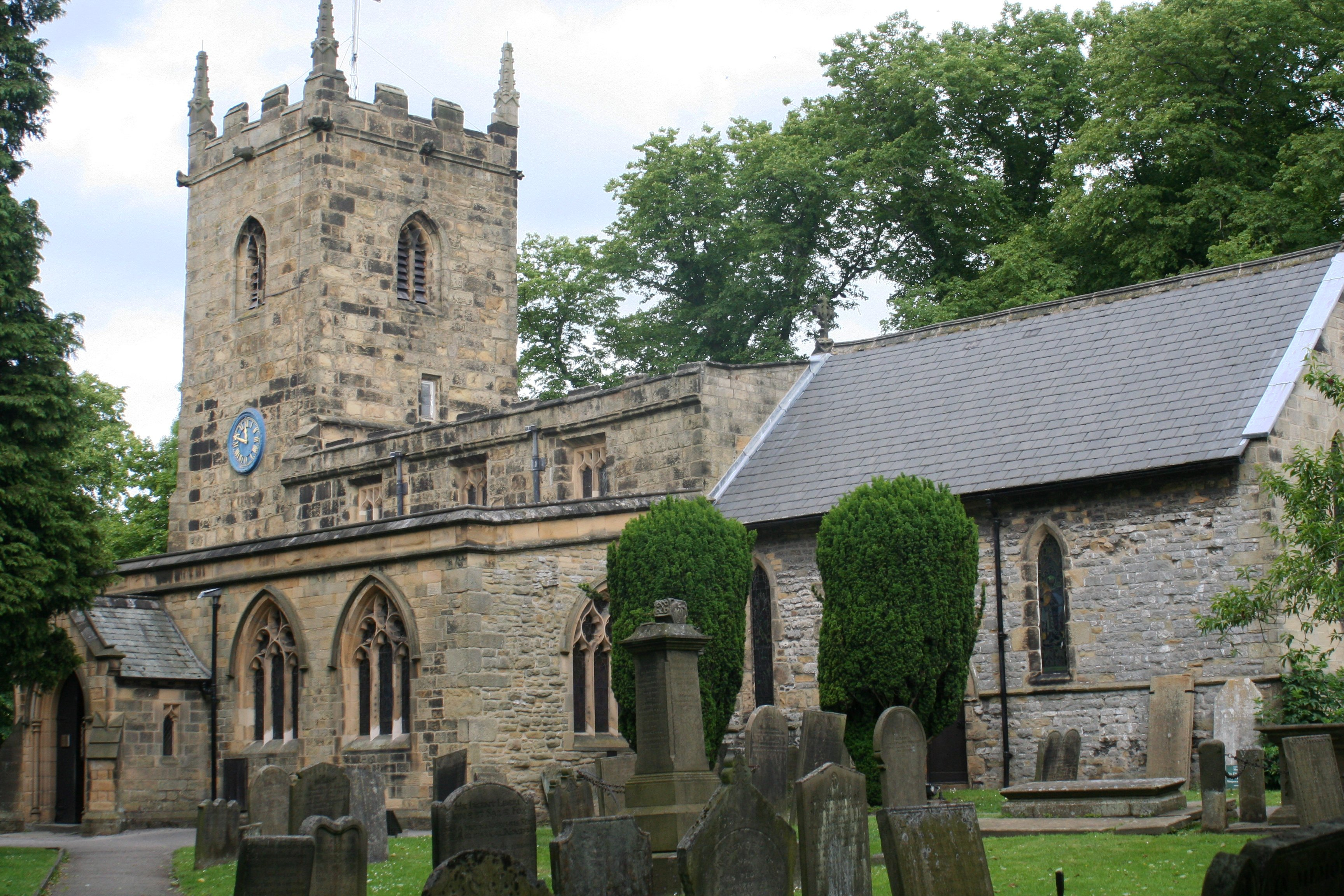 Parish Church in Eyam, Derbyshire, England.